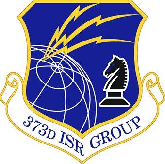 373d Intelligence emblem. Approved on 1 December 2010. Elements of 373d Intelligence Group emblem were reversed